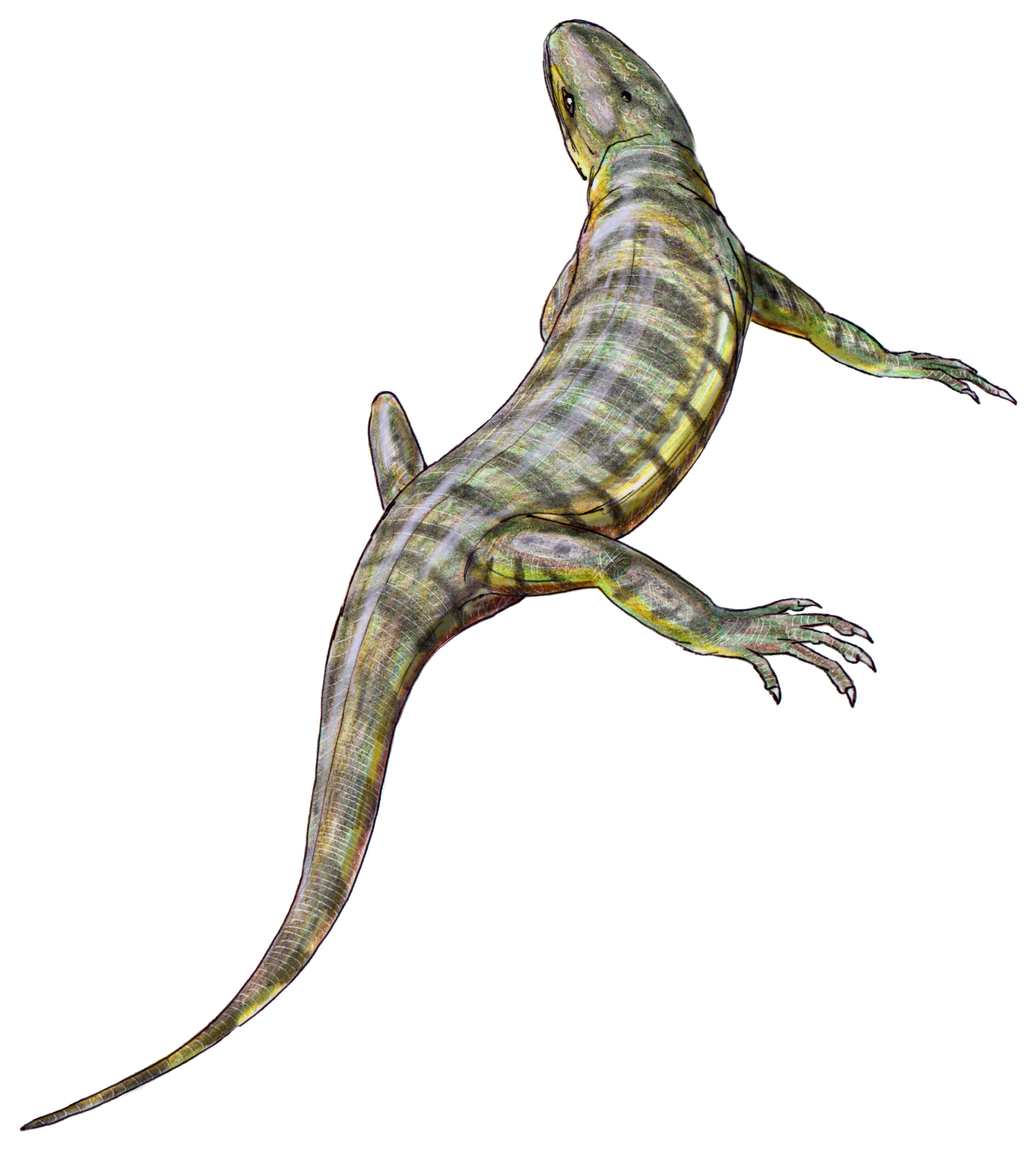 Reconstruction of Casineria kiddi - primitive amniote from Early Carboniferous of East Kirkton